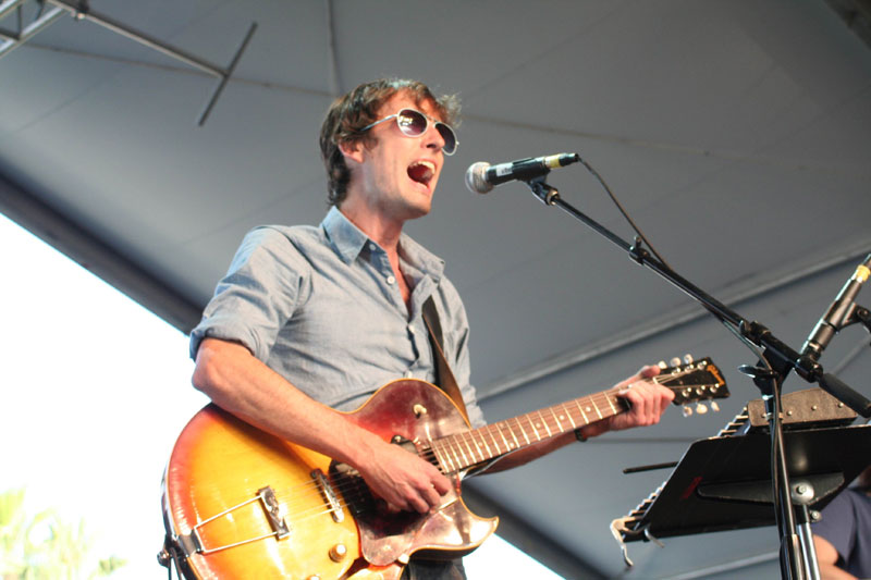 Andrew Bird, Coachella 2007, Photo by Paul Familetti